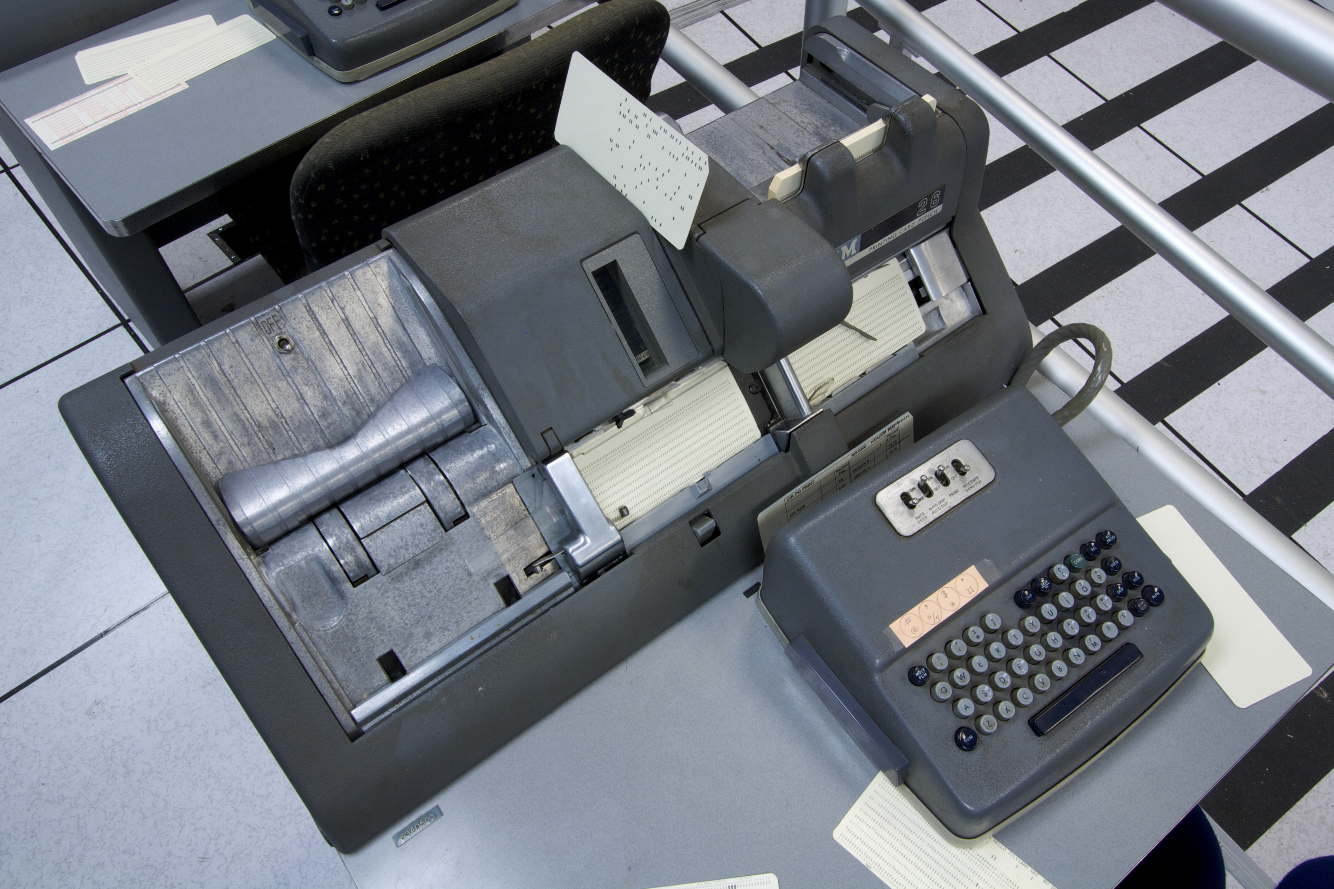 IBM 026 keypunch from above